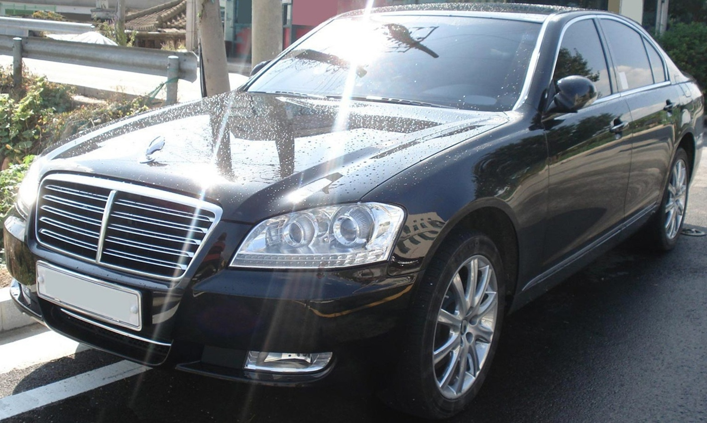 SsangYong Chairman W